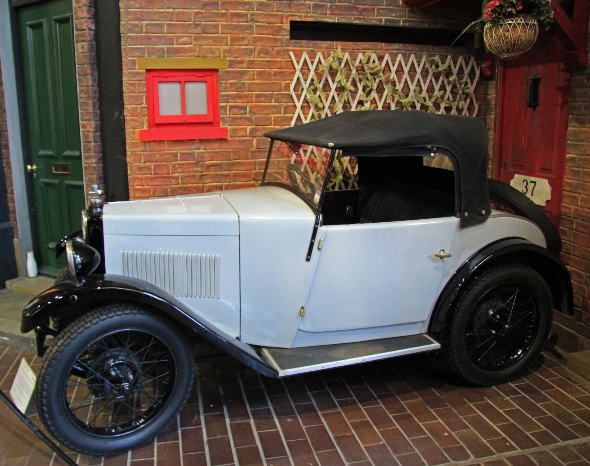 1931 Morris Minor £100 car, this car is believed to be the earliest surviving example, numbering having commenced at SV101. The Minor boasted an overhead camshaft engine and four-wheel brakes. For the magical price of £100, the two-seater model with side-valve engine was available by 1931. No bumpers or brightwork and a three lamp lighting set, this economy car sold well during the Depression. Chassis number SV107 Cylinders: In-line 4 Valves: Side Capacity: 847cc Power Output: 10bhp @ 4000rpm Maximum Speed: 52mph Price New: £100 Manufacturer: Morris Motors Ltd, Cowley, Oxford Owner: Mrs M. Vacher